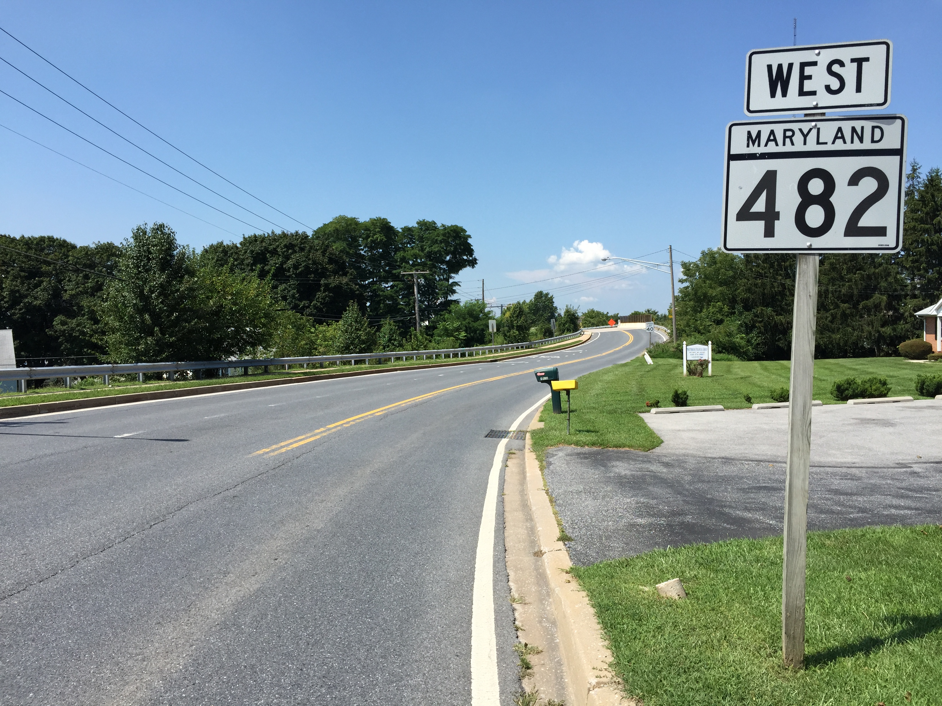 View west along Maryland State Route 482 (Hampstead Mexico Road) at First Street in Hampstead, Carroll County, Maryland